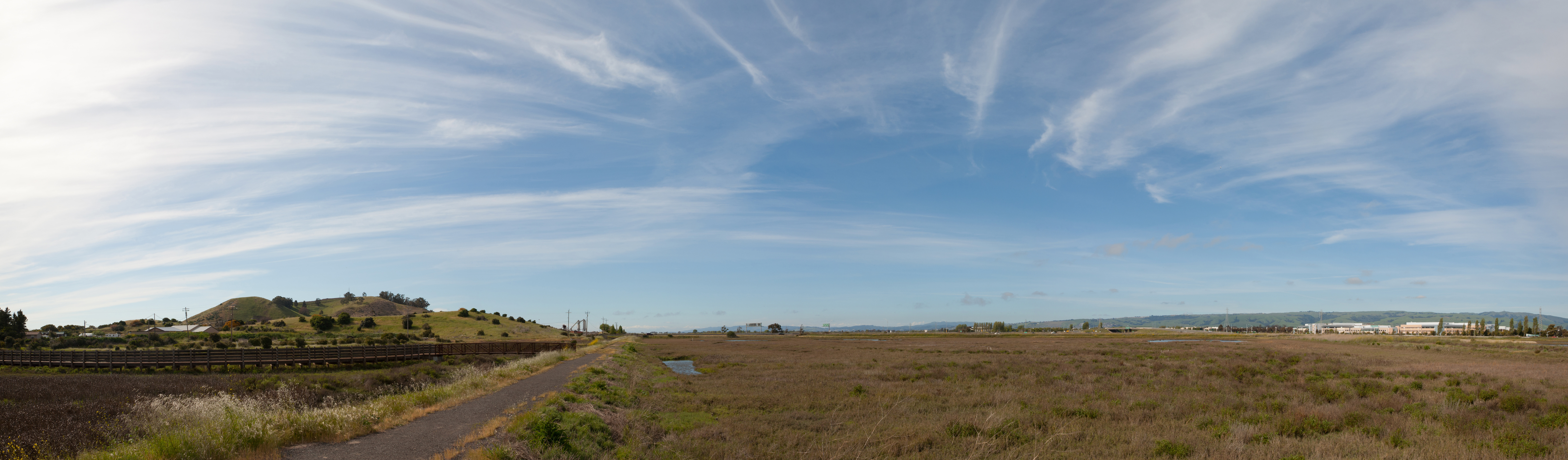 Four-segment panorama. A view of La Riviere Marsh in Don Edwards San Francisco Bay National Wildlife Refuge with cirrus clouds in the sky.